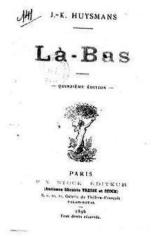 Fr.Livre:Huysmans - La Bas (image has been altered to make it darker and it has been cropped, 2014-6-25, by User:Sardaka)